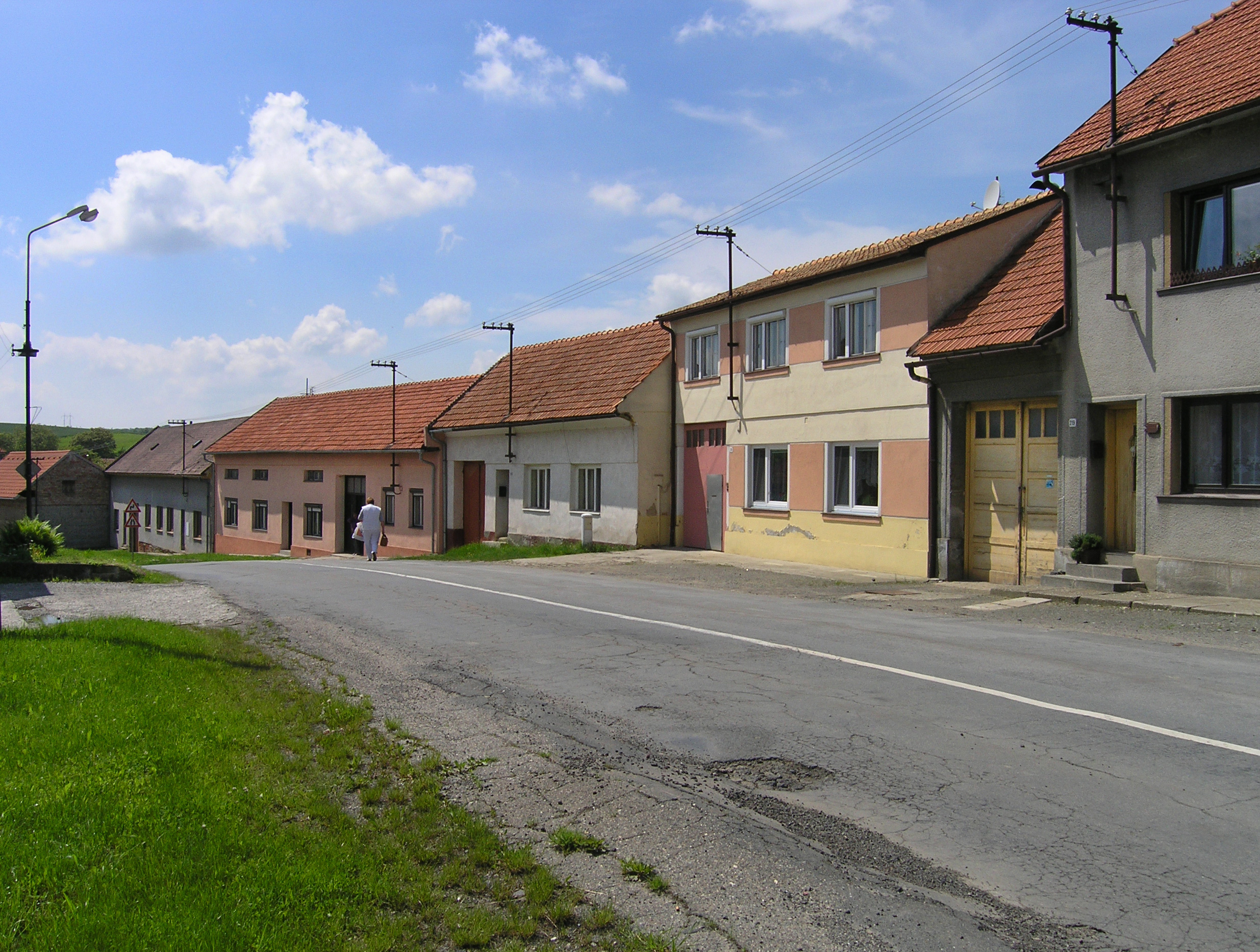 Road No 432 in Roštín village, Czech Republic